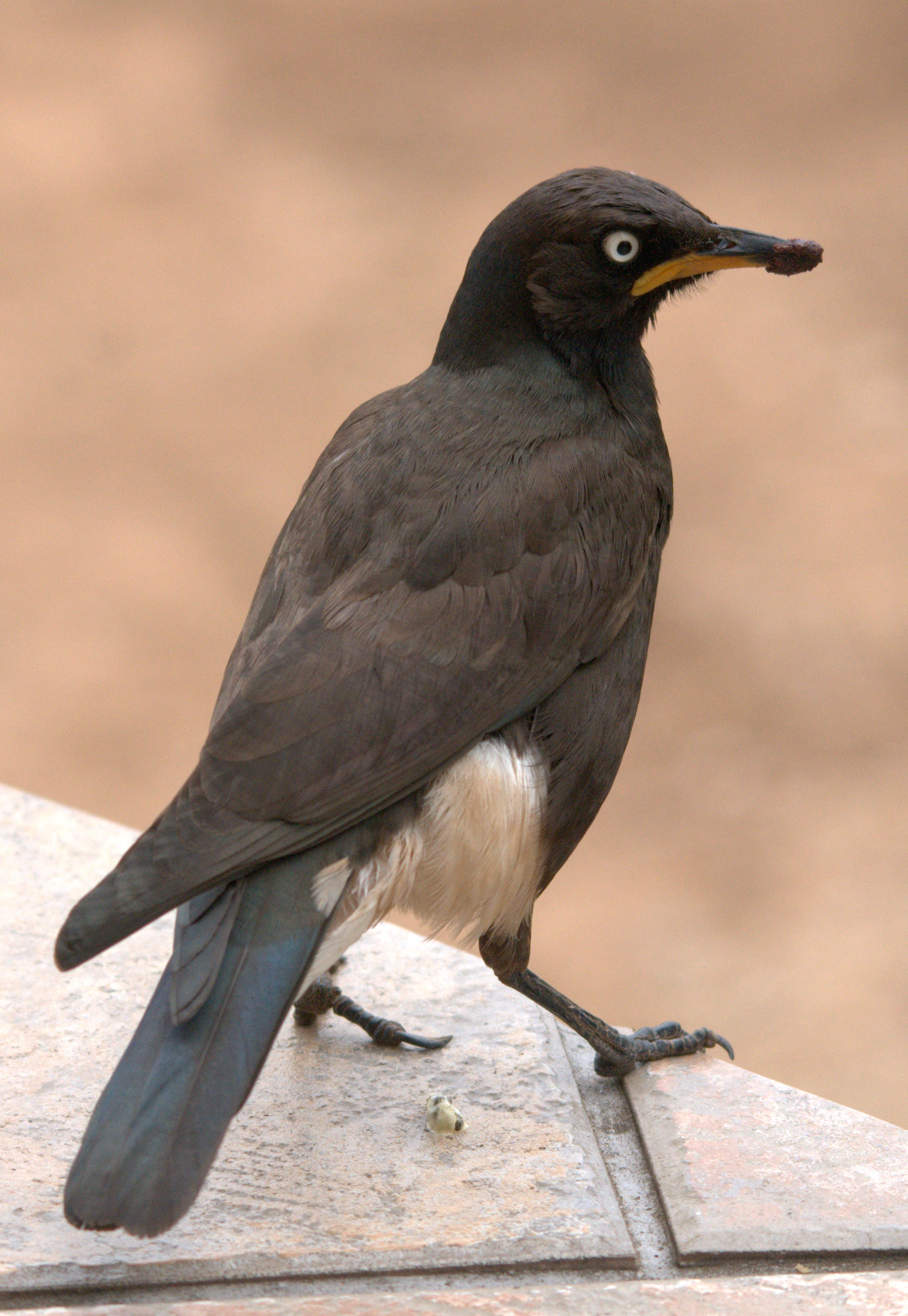 Pied Starling Lamprotornis bicolor